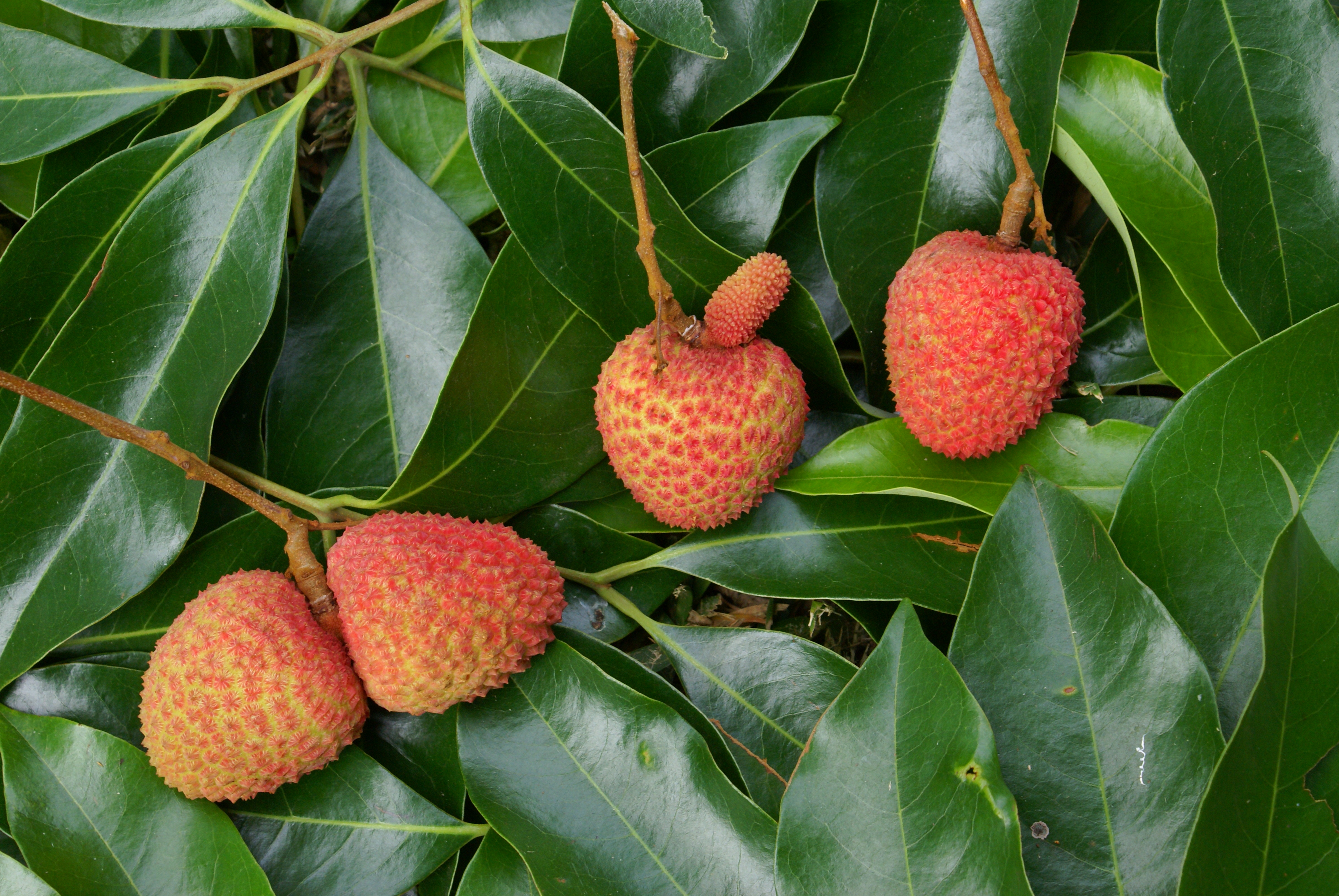 Source image of Image:Twin lychees (Litchi chinensis).JPG